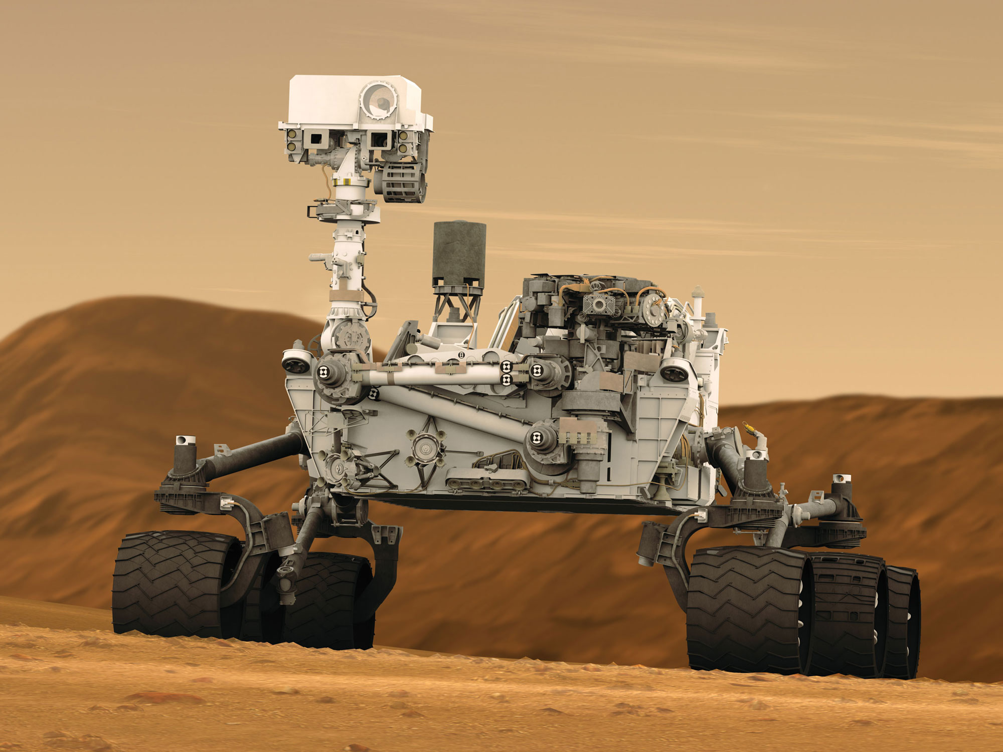 Mars Rover Curiosity in Artist's Concept, Tall - This artist concept features NASA's Mars Science Laboratory Curiosity rover, a mobile robot for investigating Mars' past or present ability to sustain microbial life. Curiosity launched in the fall of 2011 and landed successfully near Gale Crater in Aug of 2012. In this image, the mast, or rover's "head," rises to about 2.1 meters (6.9 feet) above ground level, about as tall as a basketball player. This mast supports two remote-sensing instruments: the Mast Camera, or "eyes," for stereo color viewing of surrounding terrain and material collected by the arm; and, the ChemCam instrument, which is a laser that vaporizes material from rocks up to about 9 meters (30 feet) away and determines what elements the rocks are made of.